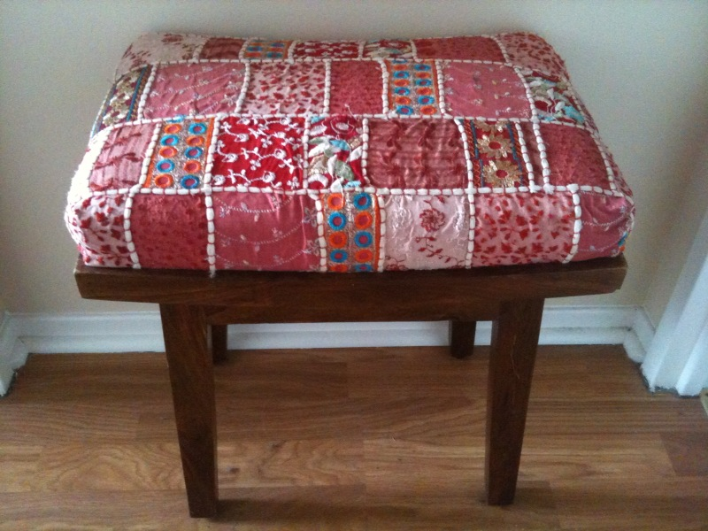 Decorative Indian-style quilt textile upholstery on wooden stool